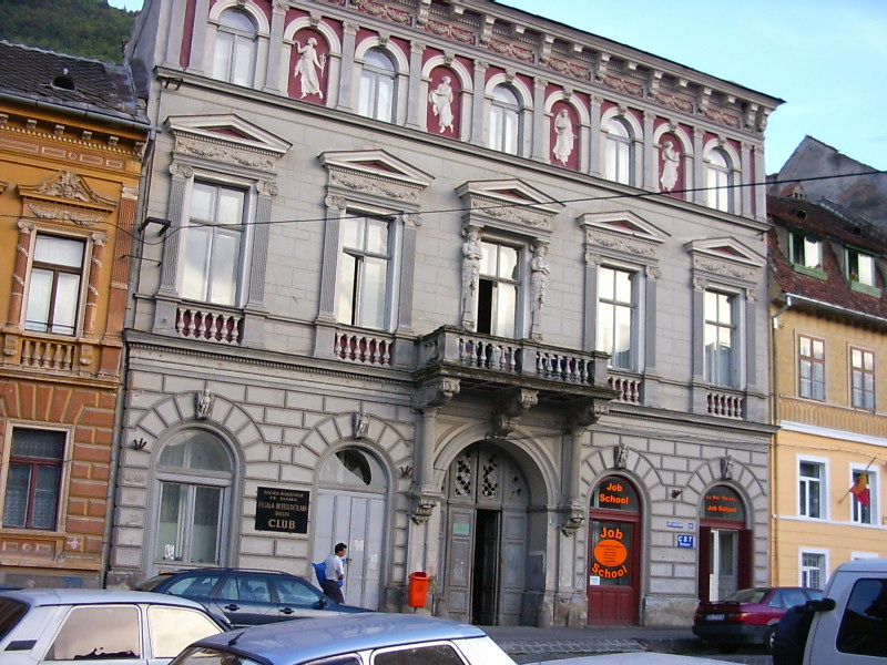 the former Hotel Continental in Braşov, built between 1871-1873 by architect Peter Bartesch for Tache Stănescu